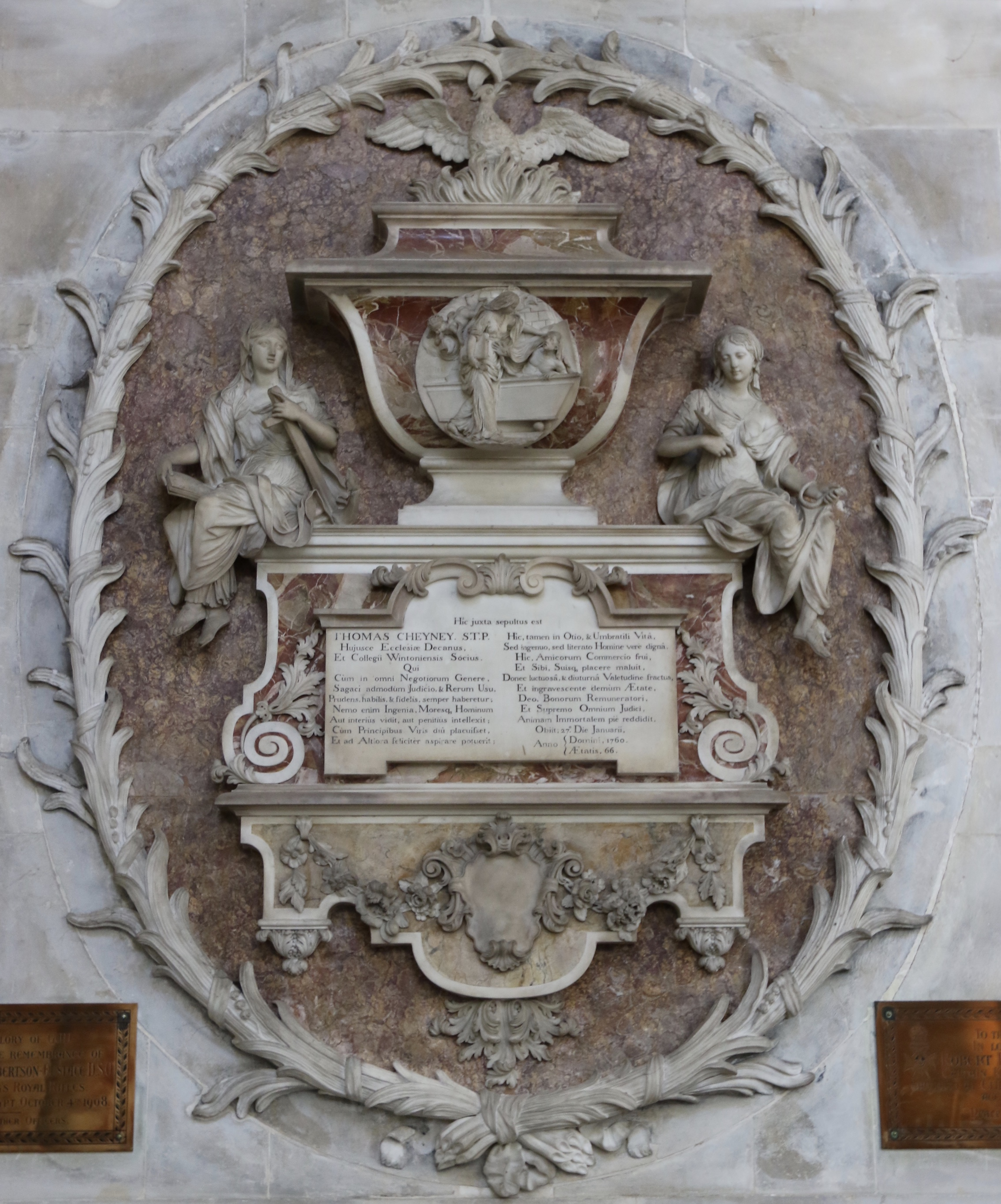 Thomas Cheyney, S.T.P., died 27 January 1760, aged 66.